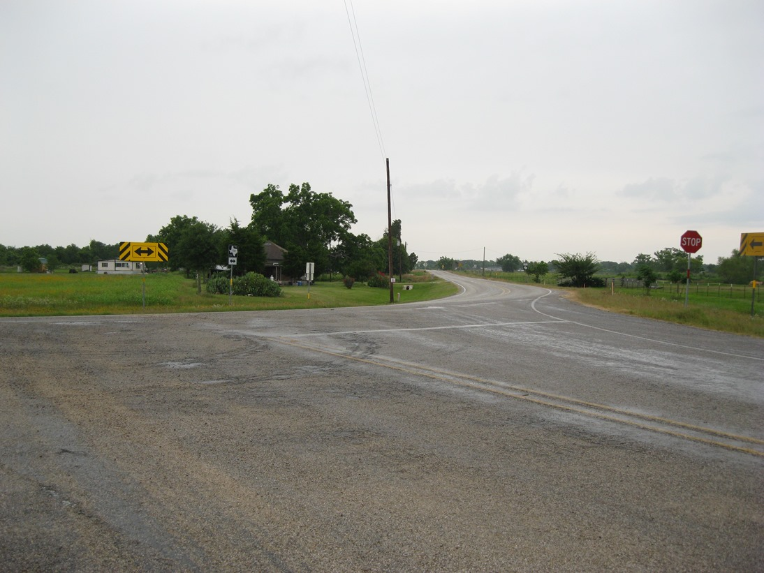 Photo shows the sharp curve on FM 1161 at FM 640 in Spanish Camp, Texas. FM 1161 comes from the left of the photo and curves in the direction that the camera is pointing. View is to the northwest on FM 1161.